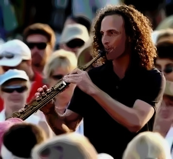 Kenny G plays at the award ceremony for the Players Championship TPC at Sawgrass.